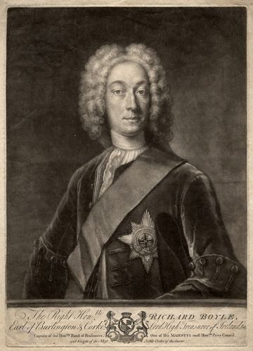 Portrait of Richard Boyle, 3rd Earl of Burlington (1694-1753)